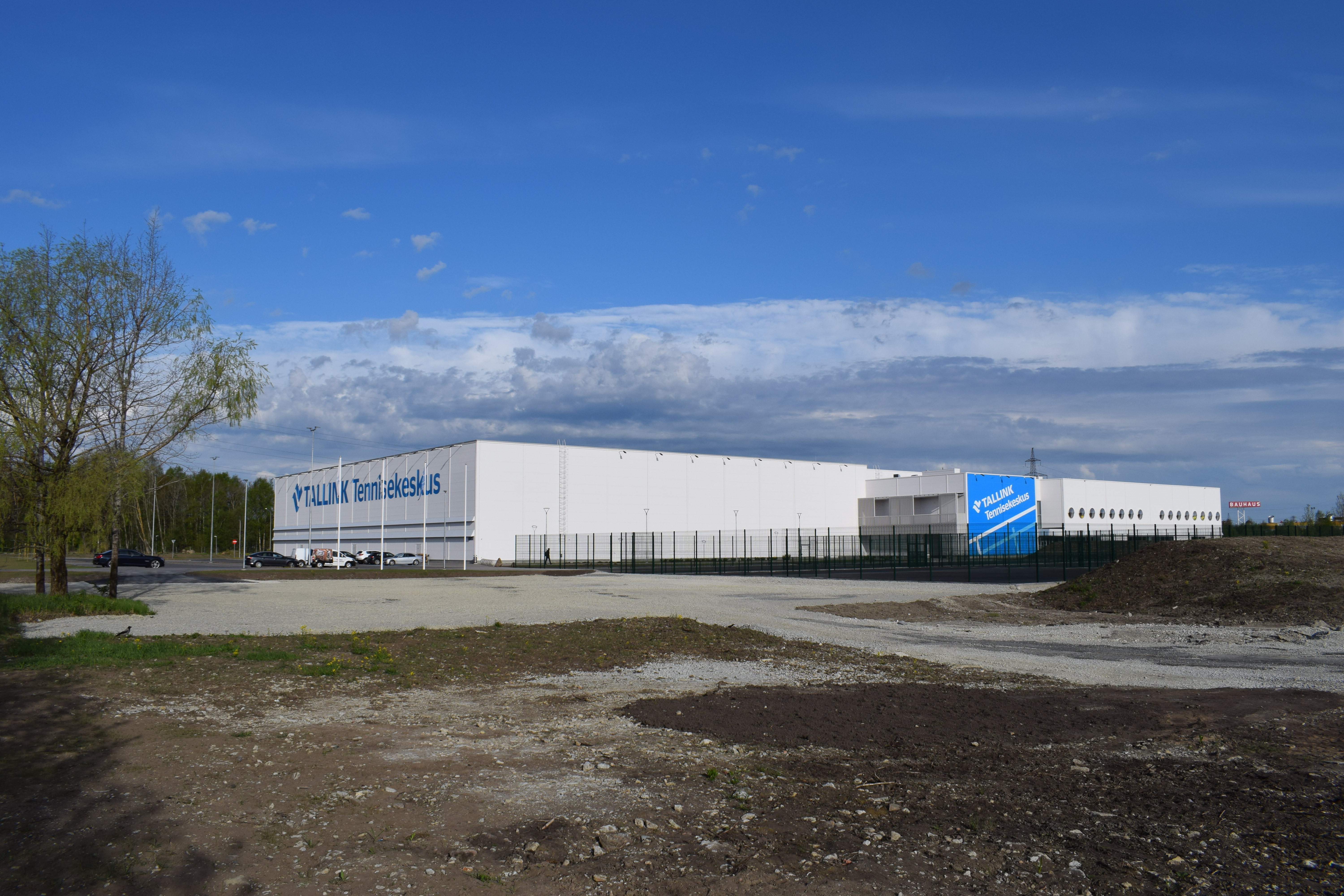 Tallink Tennis Center